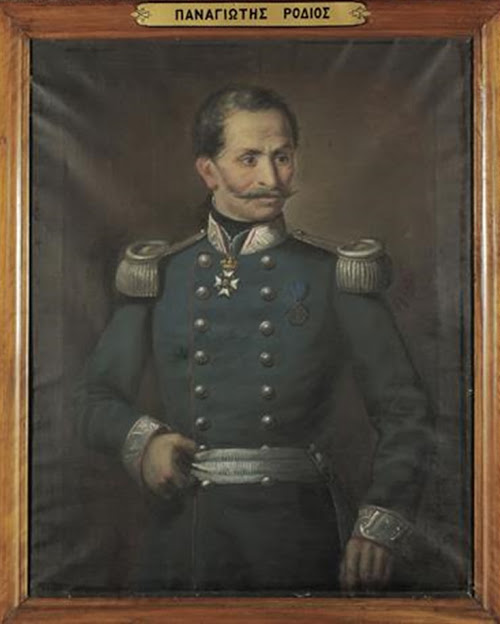 Greek general Panayotis Rodios (1789-1851), National Historic museum, Athens, Greece